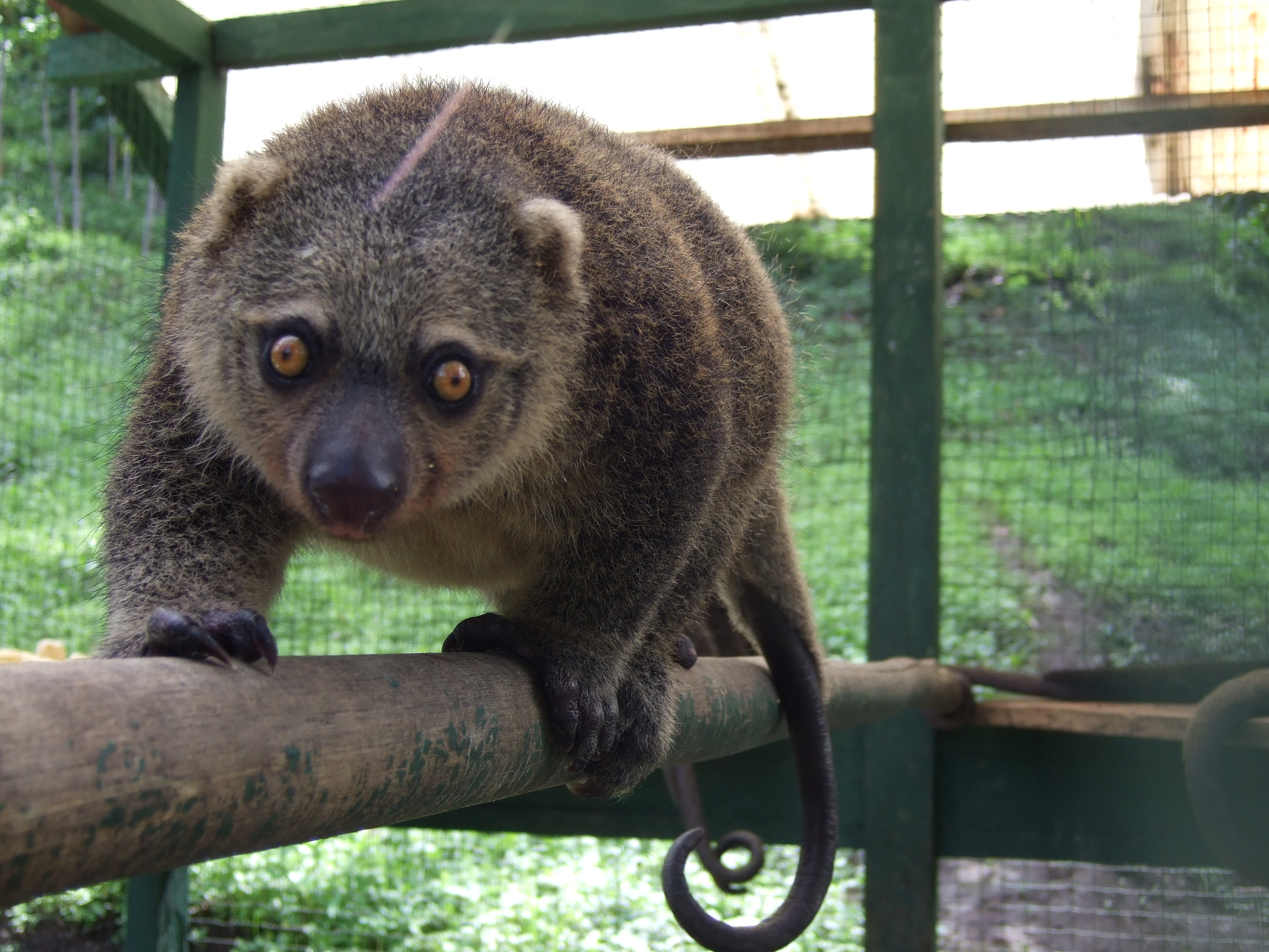 Sulawesi Bear Cuscus Ailurops ursinus, Grand Naemundung Animal Collection, Tandurusa, North Sulawesi, Indonesia